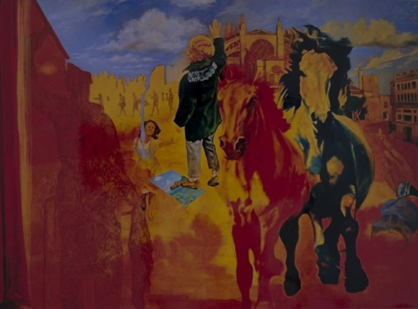 ADAM MARIAN PETE "NEW ETERNITY" Acrylic on canvas 2006 160 X 230 cm